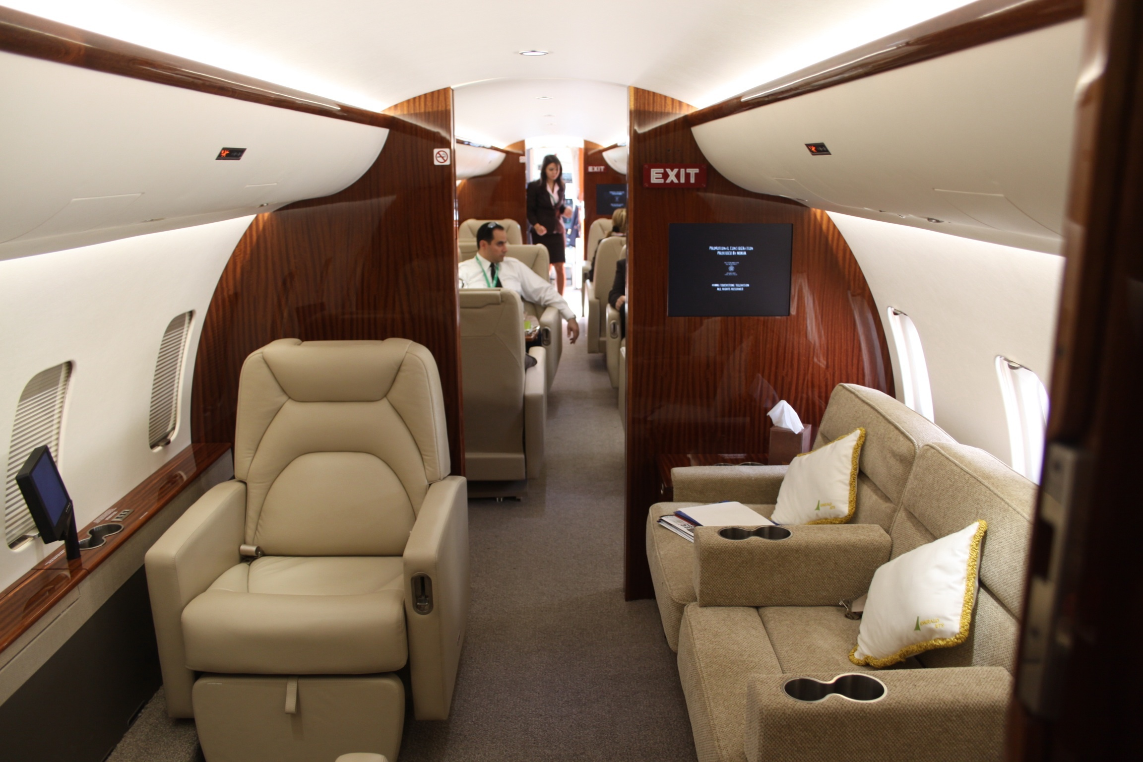 At Dubai International DXB